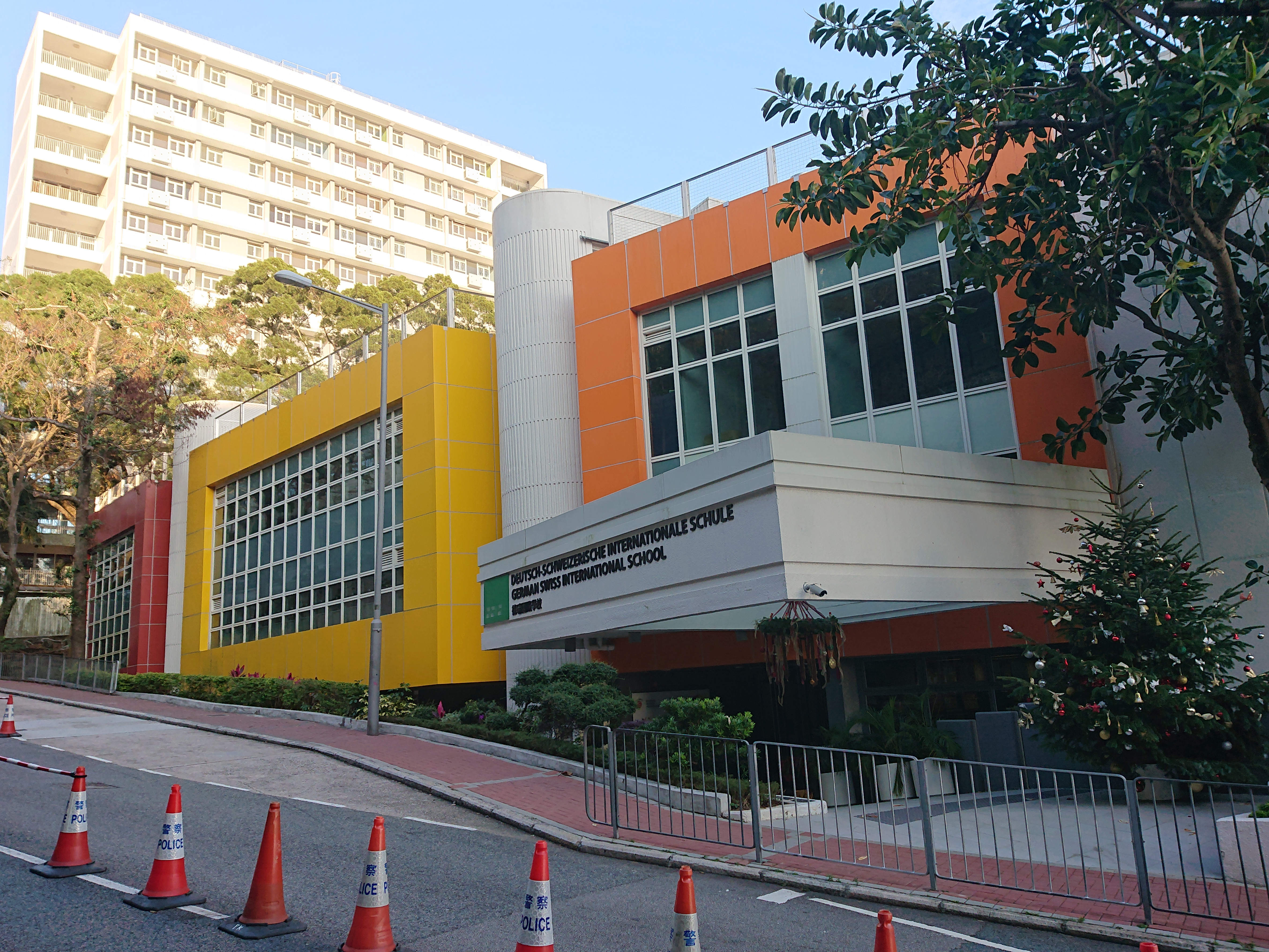 German Swiss International School Peak Campus